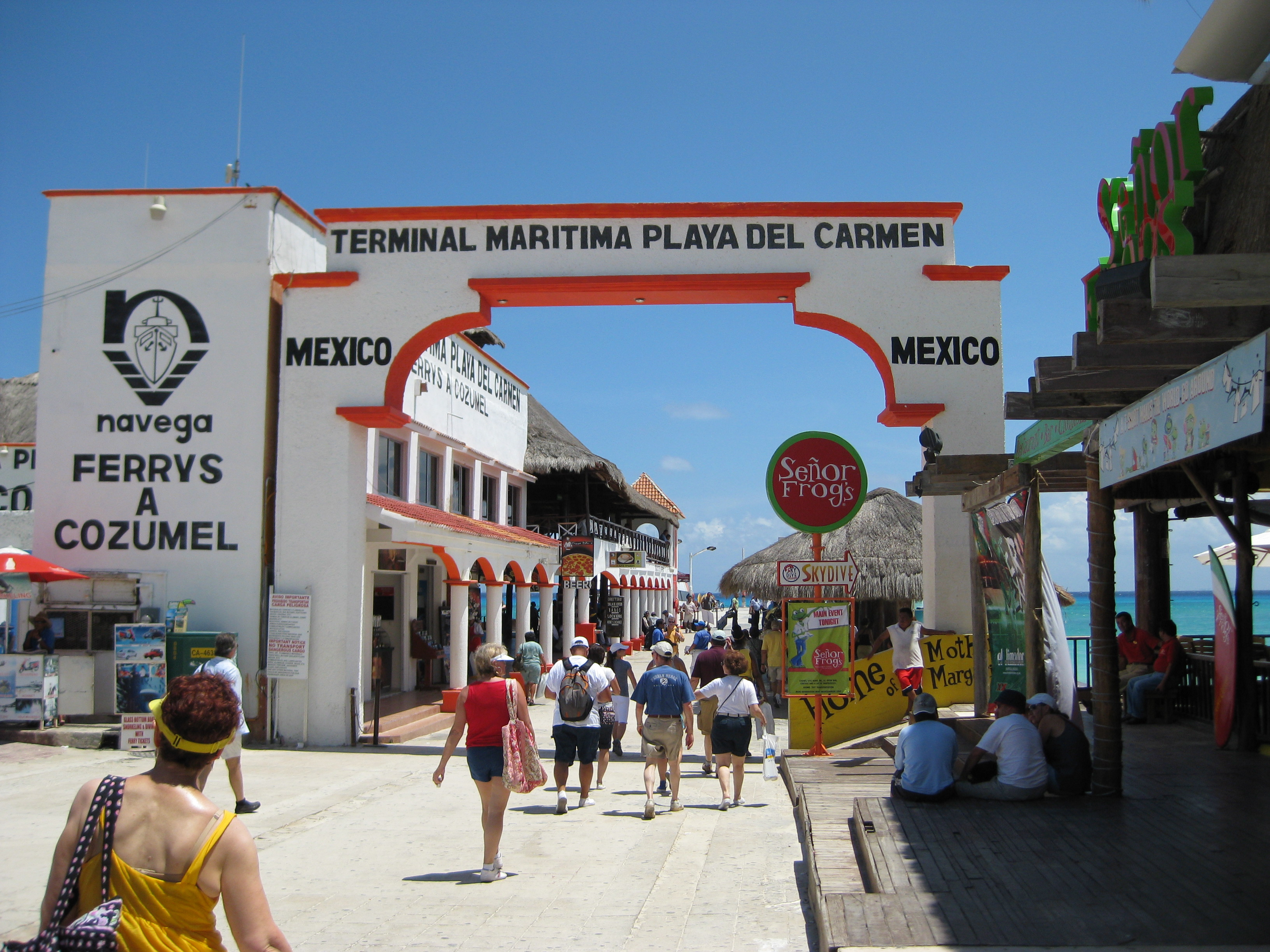 Tourists enter the Maritime Ferry Terminal at Playa del Carmen, Quintana Roo, Mexico. Passenger ferries to Cozumel depart from here. A "Señor Frogs" restaurant is to the right.